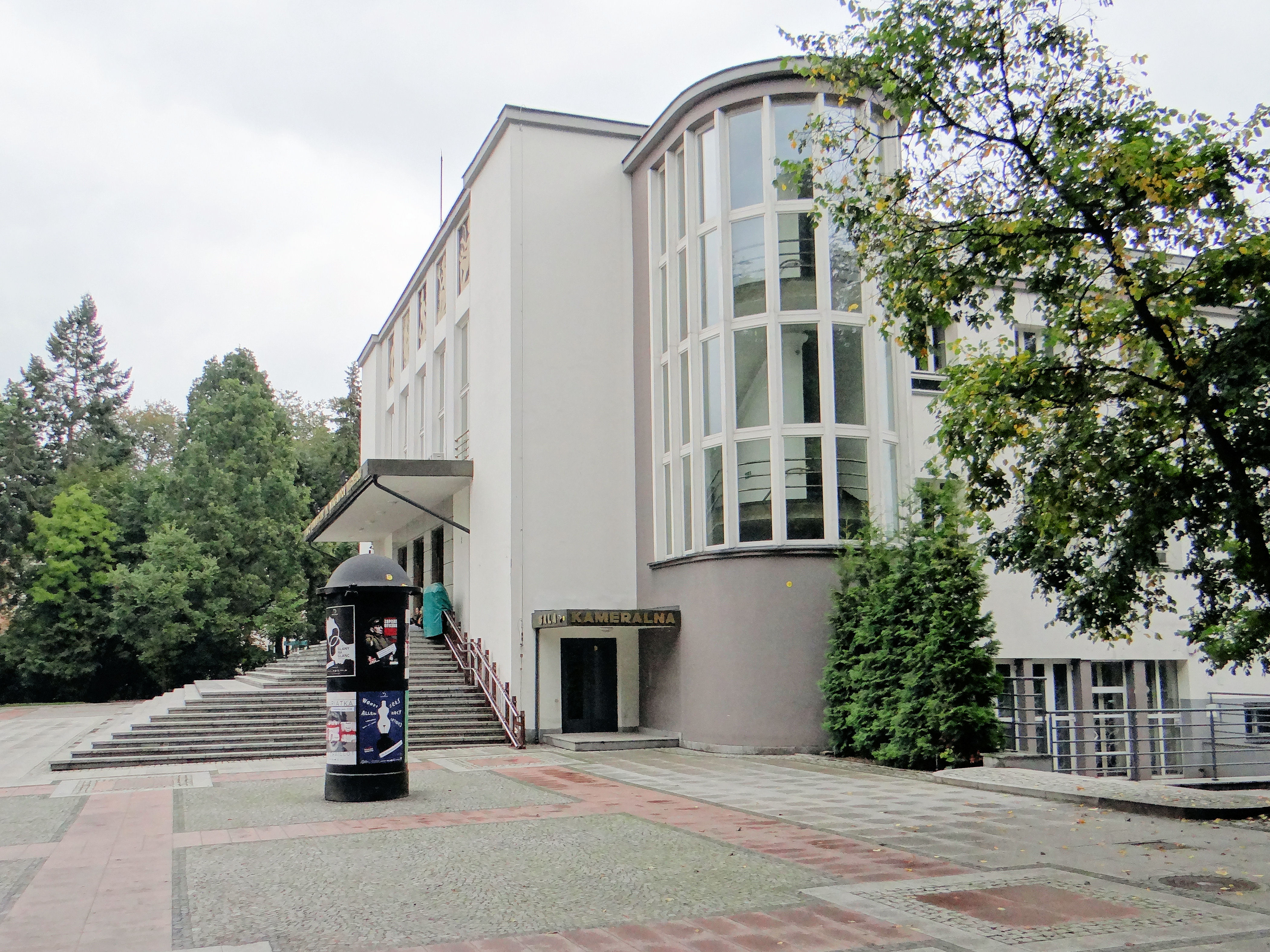 Wegierko Drama Theatre (Białystok)